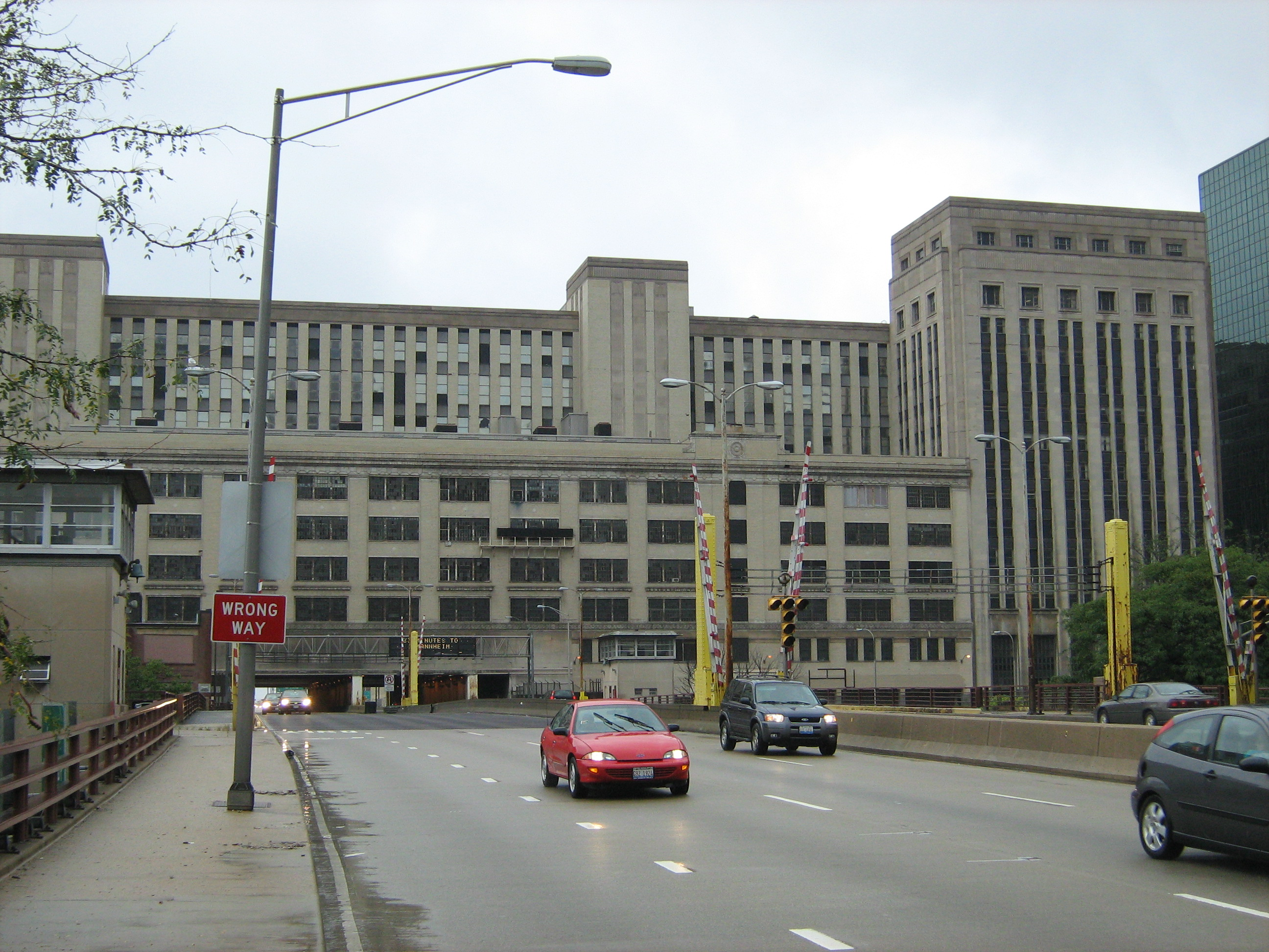 The Old Chicago Main Post Office viewed from the Congress Parkway Bridge.